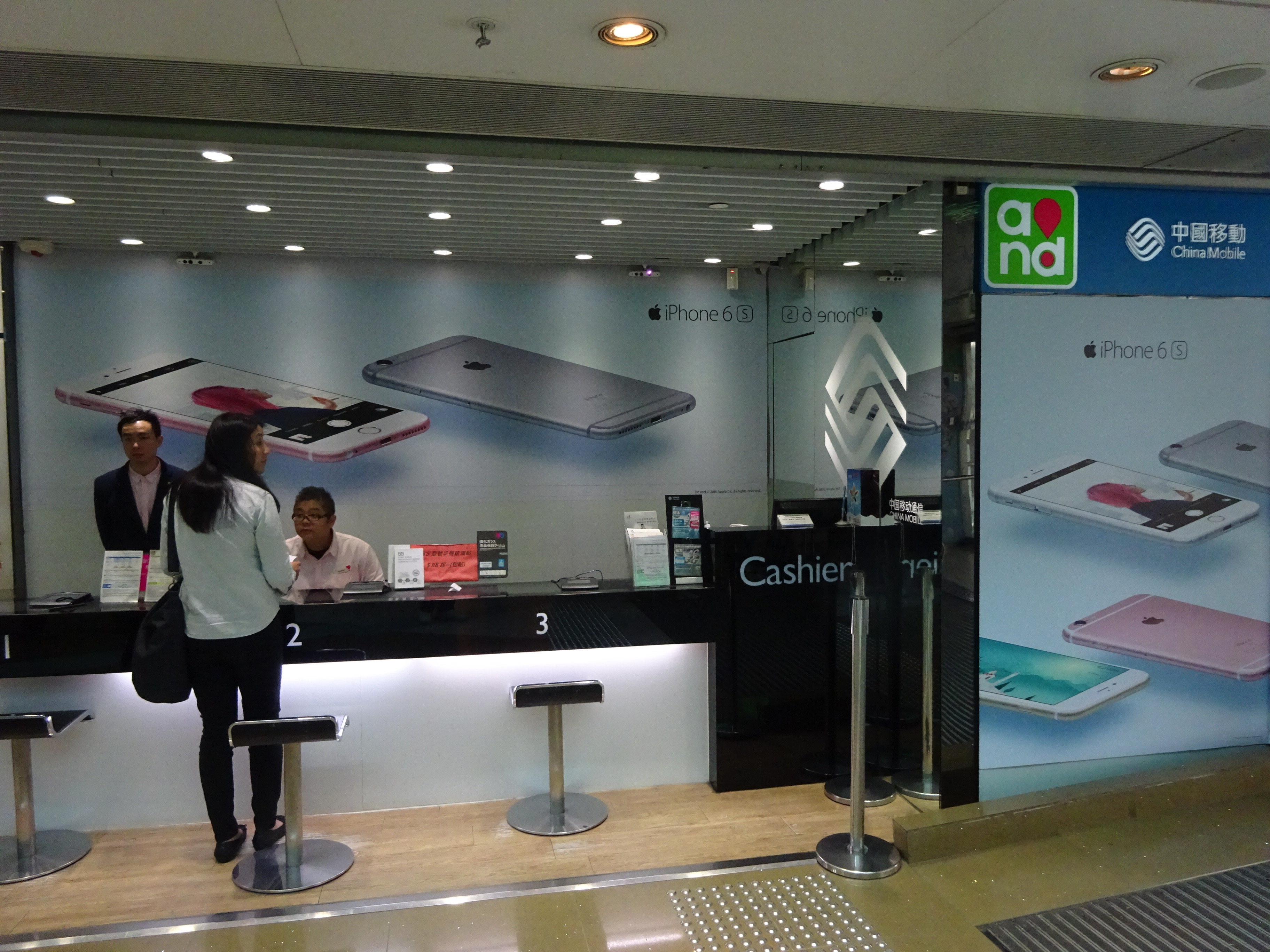 Shop in HK Tung Chung 富東邨 Fu Tung Estate Plaza mall shop in April 2016